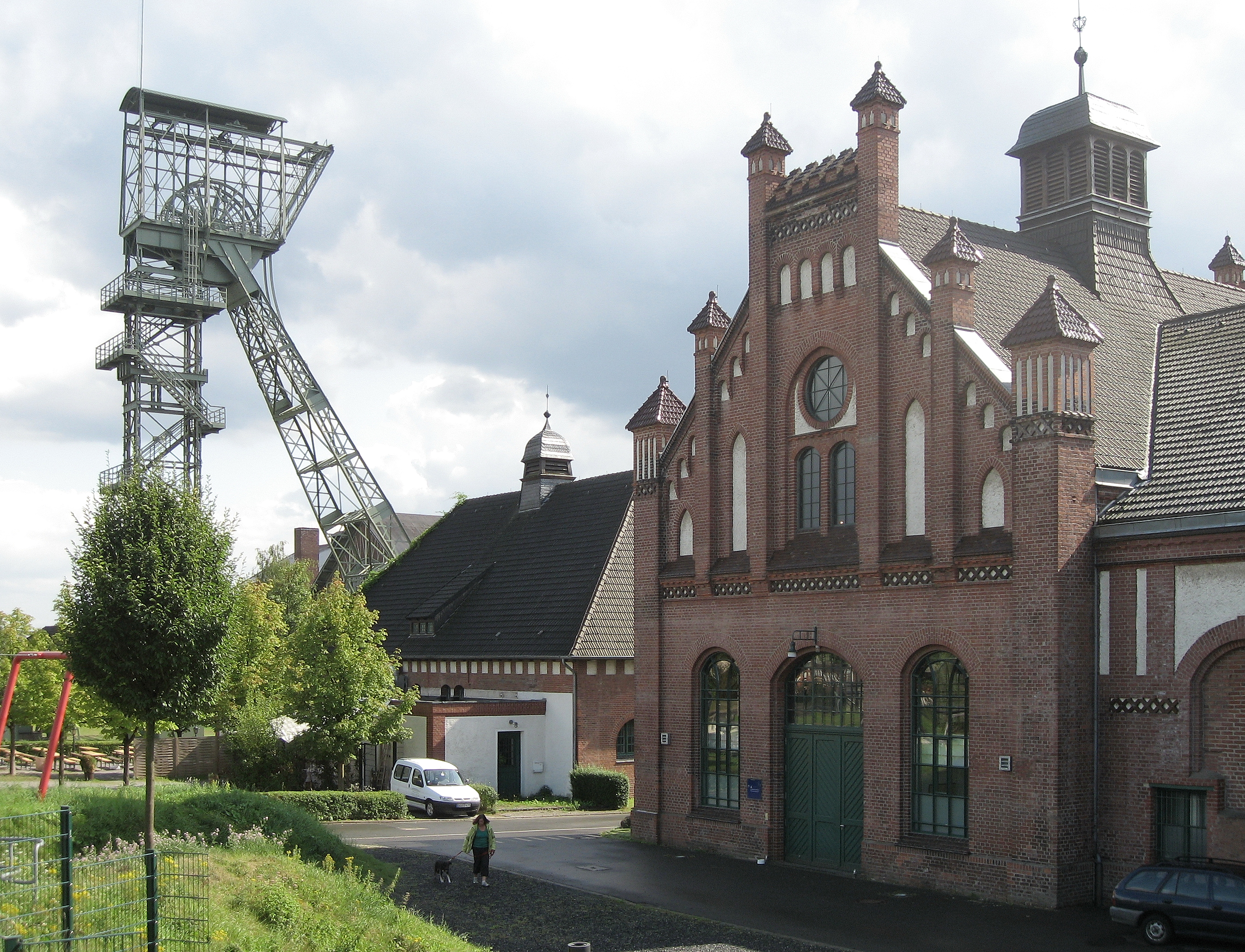 coal-mine "Zollern II/IV" in Dortmund - Google Maps - Google Earth